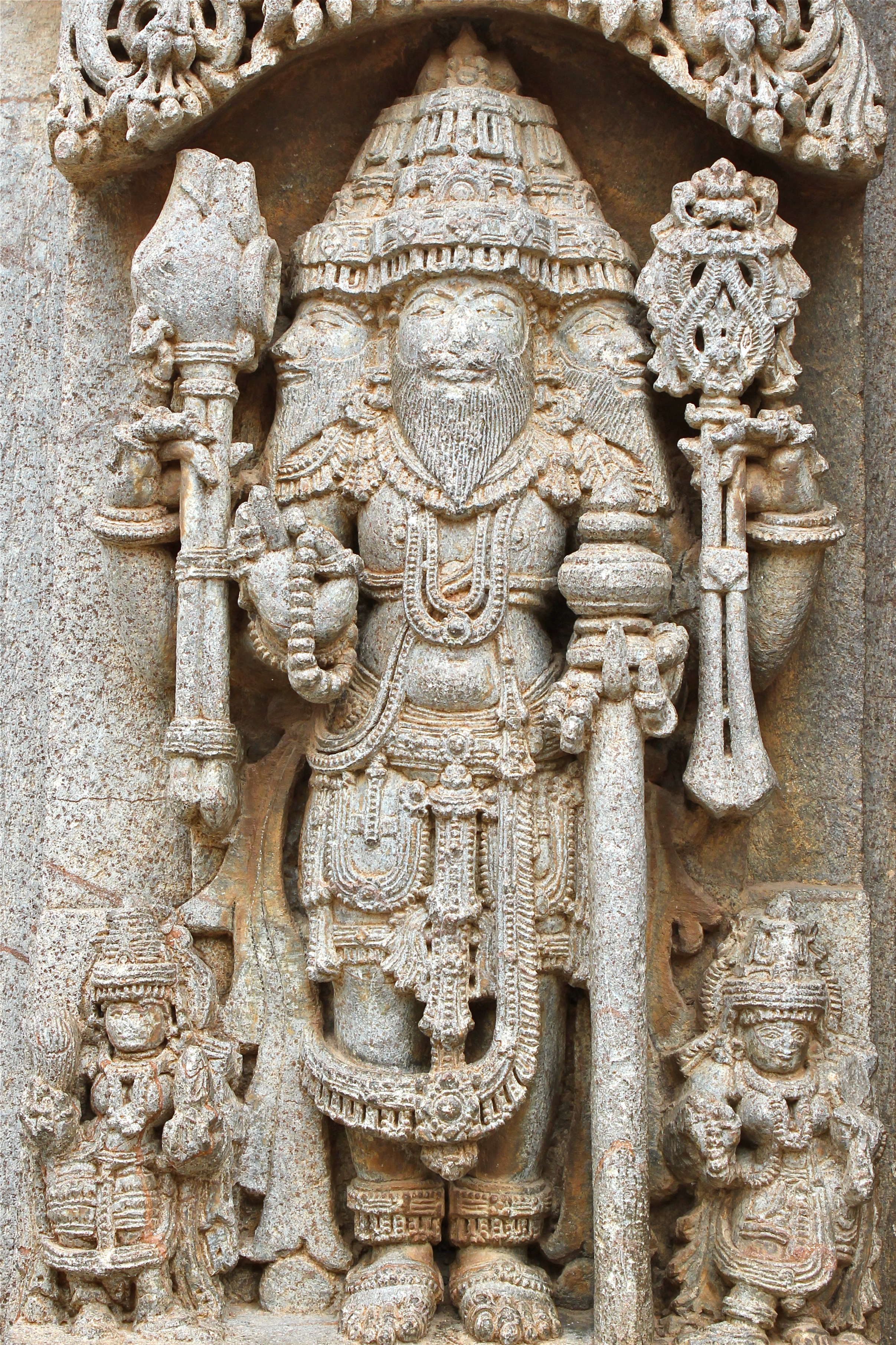 Chennakesava temple at Somanathapura, Karnataka, India. Wonderful example of Hoysala architecture of the 13th century. What isn't quite so nice is the desecration of idols by marauding invaders. Sep 2013